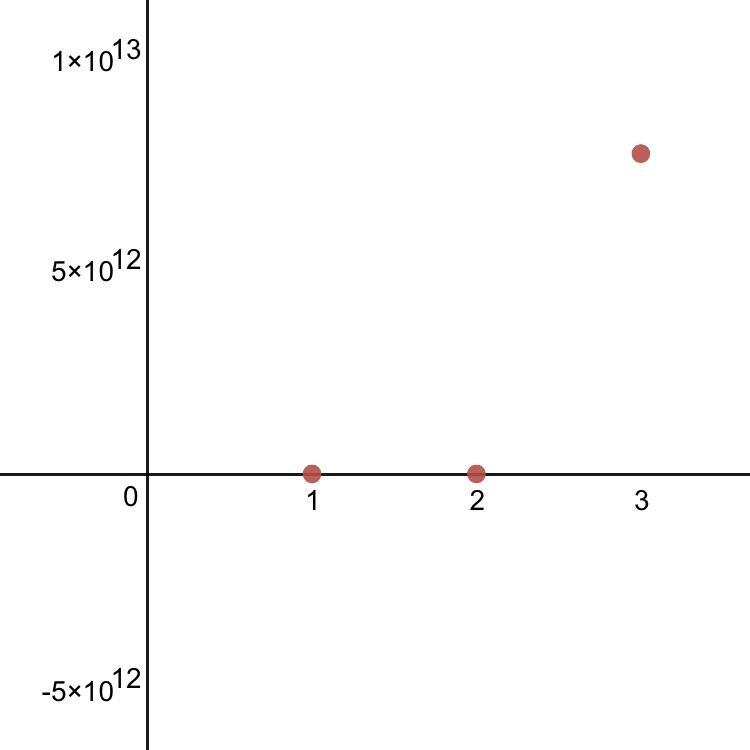 The first three values of the function x[5]2. The value 3[5]2 is about 7.626 x 10^12